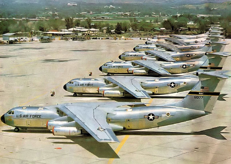 New C-141A Starlifters on the ramp at Norton AFB, California, about 1967